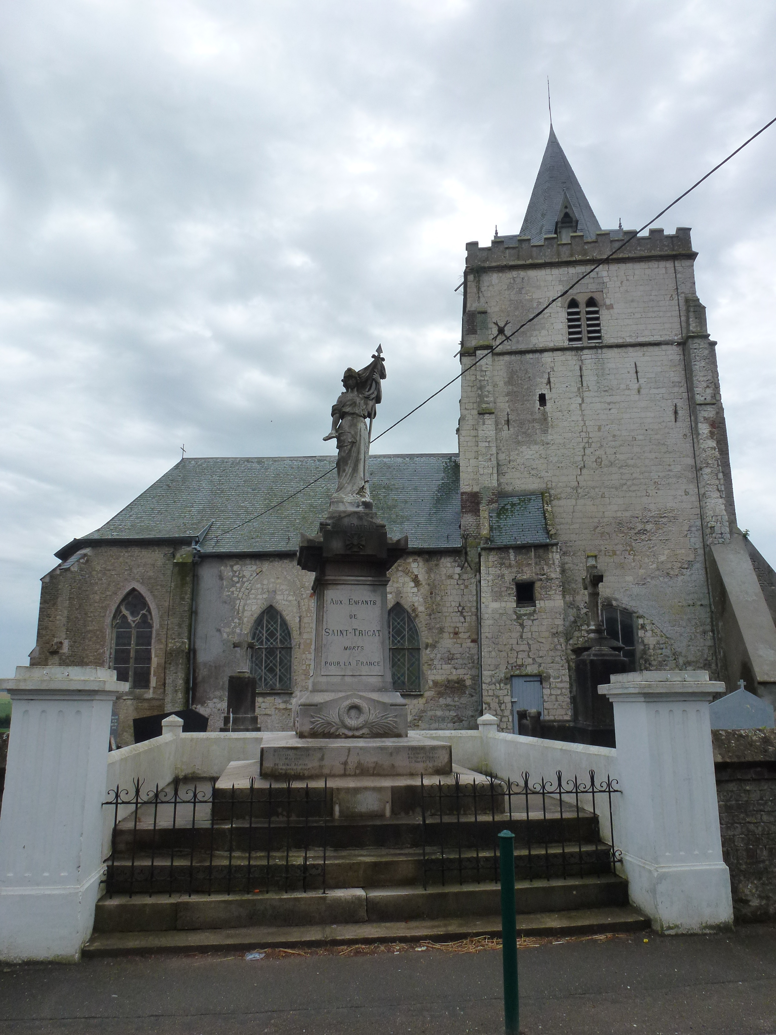 Saint-Tricat (Pas-de-Calais) église et monument aux morts